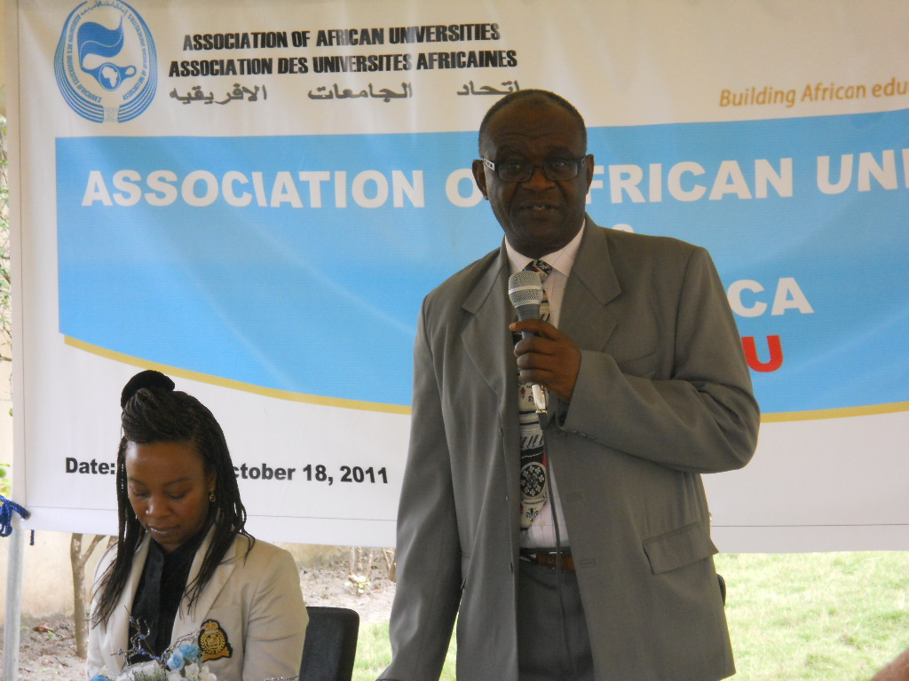 Catherine Ngugi and Prof. Olugbemiro Jegede during the official signing of the Memorandum of Understanding (MoU) between Saide – OER Africa and Association of African Universities (AAU) at AAU Headquarters in Accra (Ghana) in October 2011.